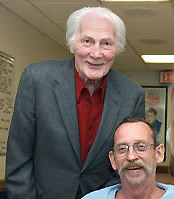 Jack Palance, Oscar-winning American film actor. Taken during a visit to a VA hospital in Los Angeles, California